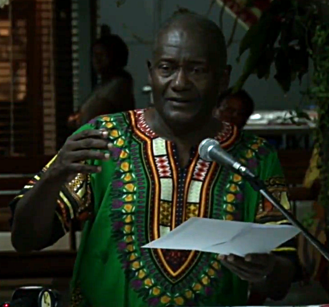 Hans Breeveld, Surinamese politician and writer